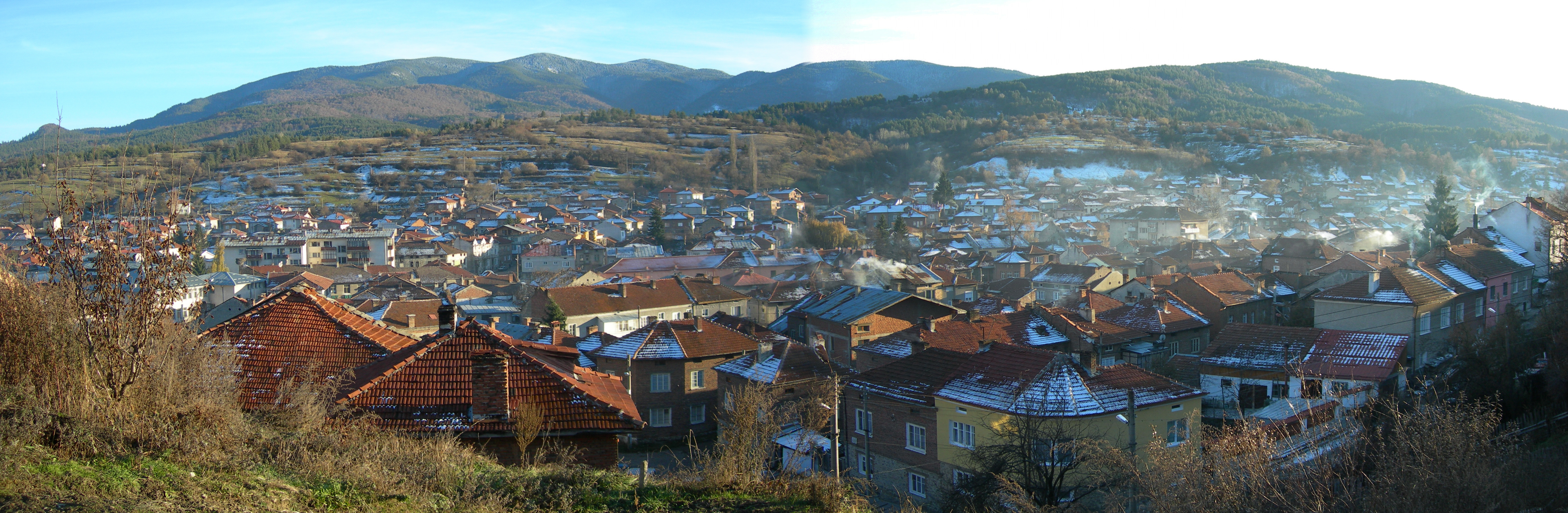 Overview of Batak, Bulgaria